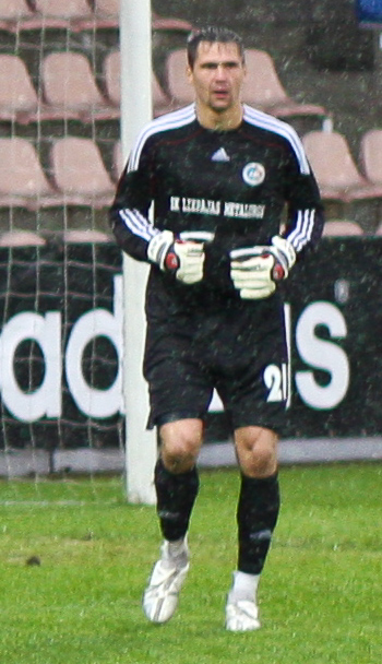 Pāvels Šteinbors, Latvian football goalkeeper